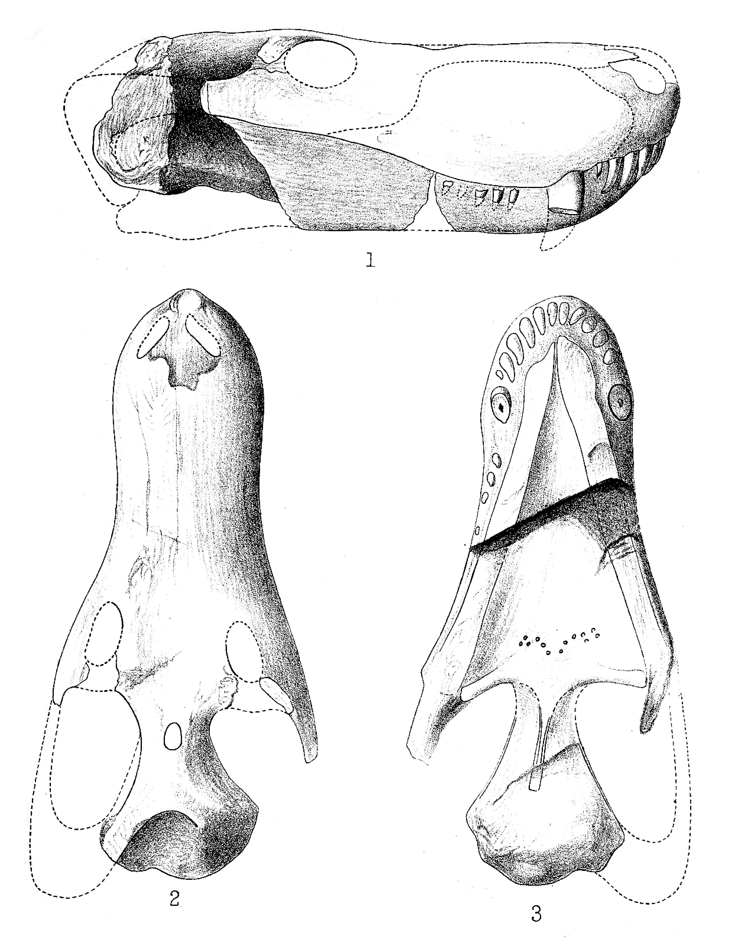 Drawing of the holotype skull of the therapsid amniote Glanosuchus macrops BROOM 1904 in lateral (1), dorsal (2) and ventral (3) view (modified from original figure).